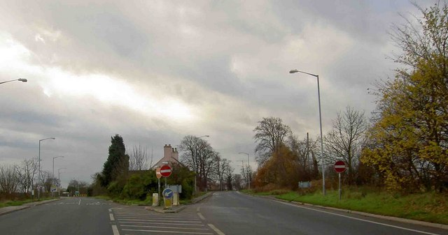 The pink house junction on the A638 leaving Bawtry